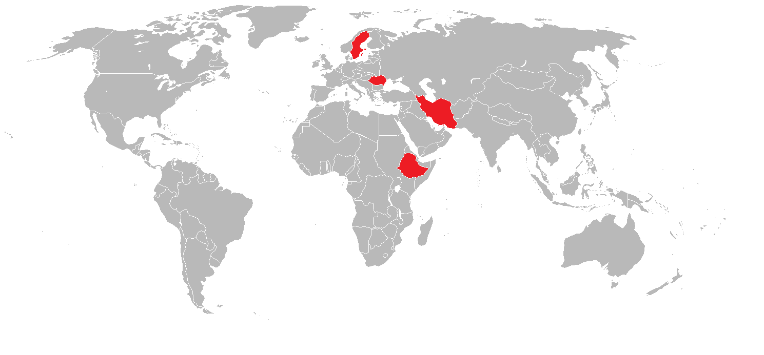 Map of former operators of the AH-IV tankette.